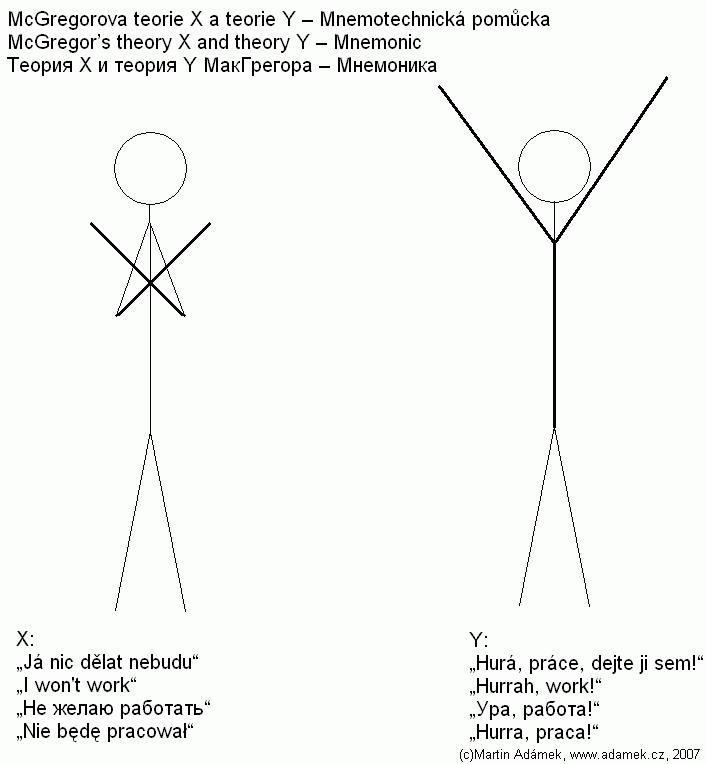 McGregorova teorie X a teorie Y – Mnemotechnická pomůcka;McGregor’s Theory X and theory Y – Mnemonic;Теория X и теория Y МакГрегора – Мнемоника